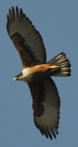 Lophotriorchis kienerii, in flight, near Coimbatore, Tamil Nadu, India